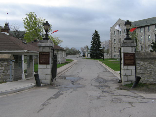 Gates Within the Royal Military College of Canada